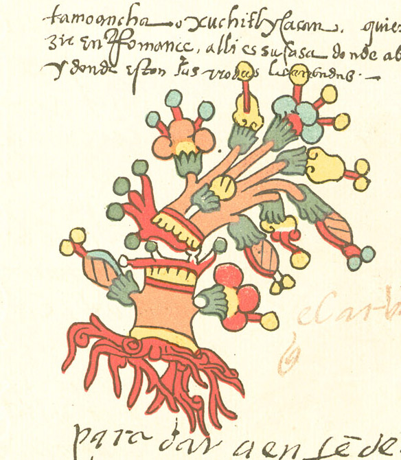 Tamoanchan described in the Codex Telleriano-Remensis.